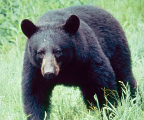 Black Bear in the Great Smokey Mountains